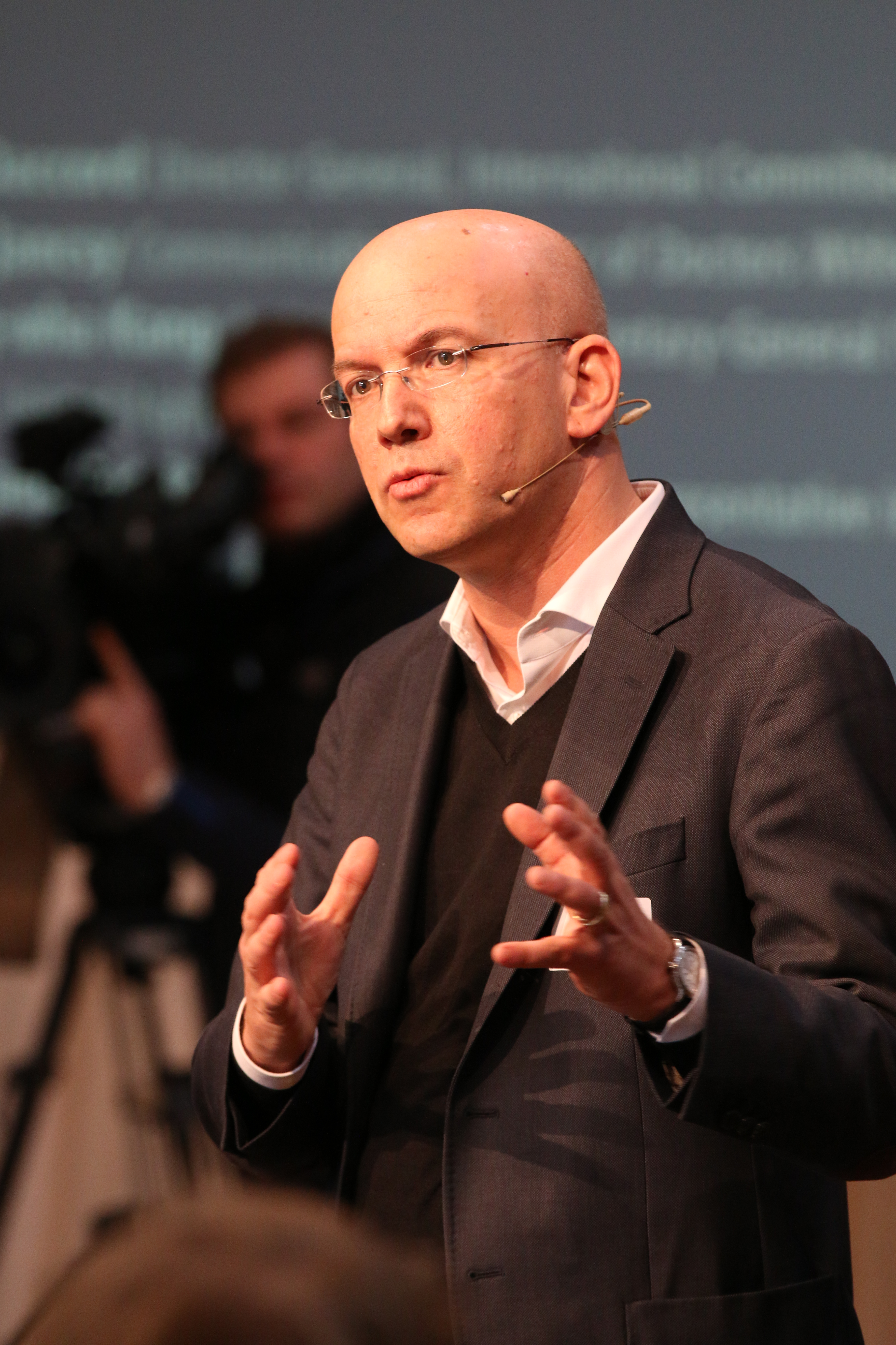 Yves Daccort gives a speech about "Humanitarian aid in between international politics" at the third Humanitarian Congress 2015 in Vienna.